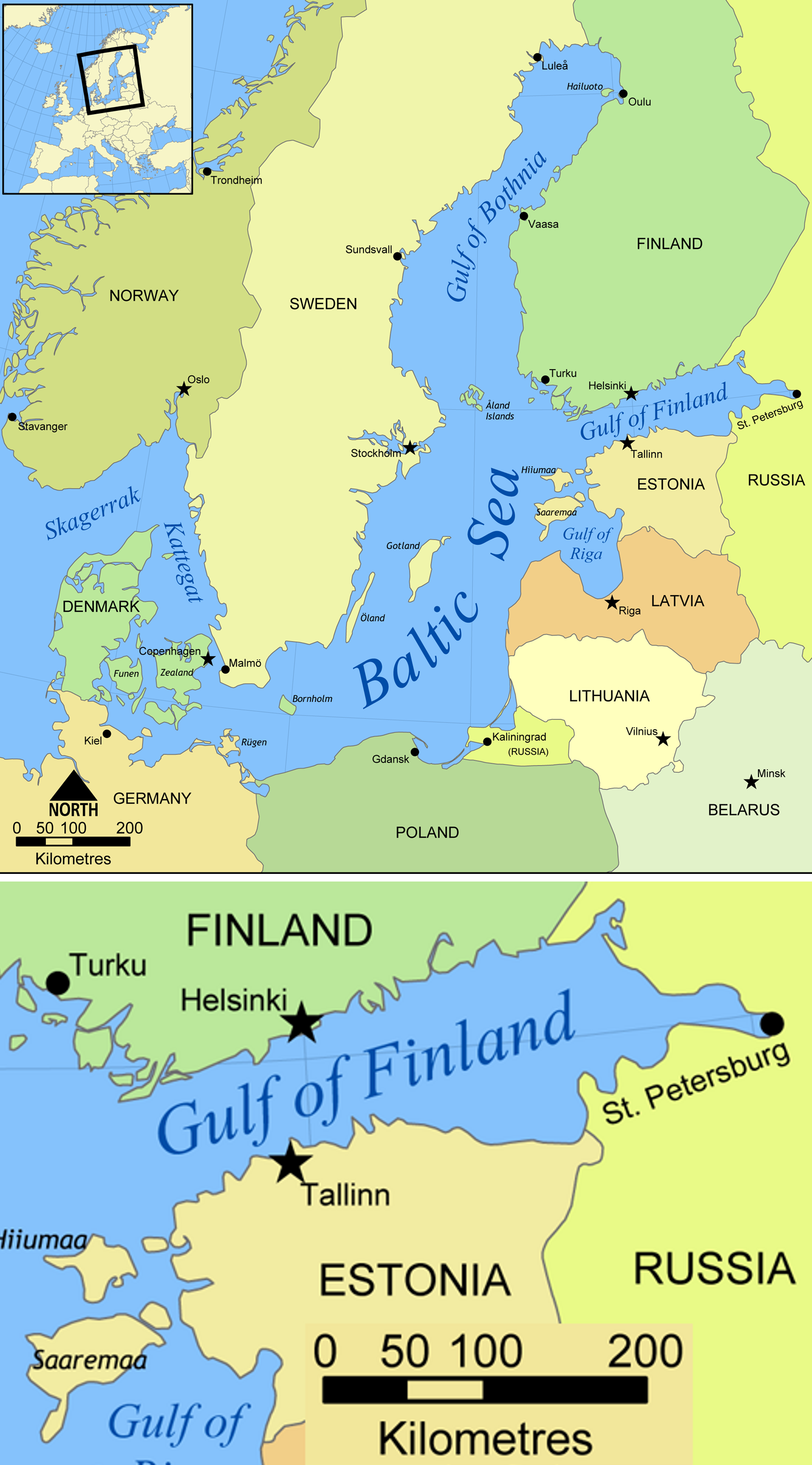 Map of the Baltic Sea. Created by NormanEinstein, May 25, 2006.